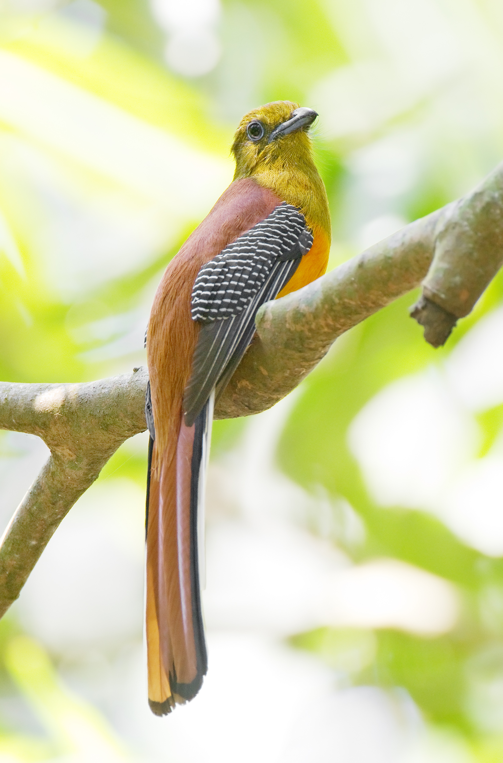 Orange-breasted Trogon (Harpactes oreskios), Song Phi Nong, Kaeng Krachan, Phetchaburi, Thailand